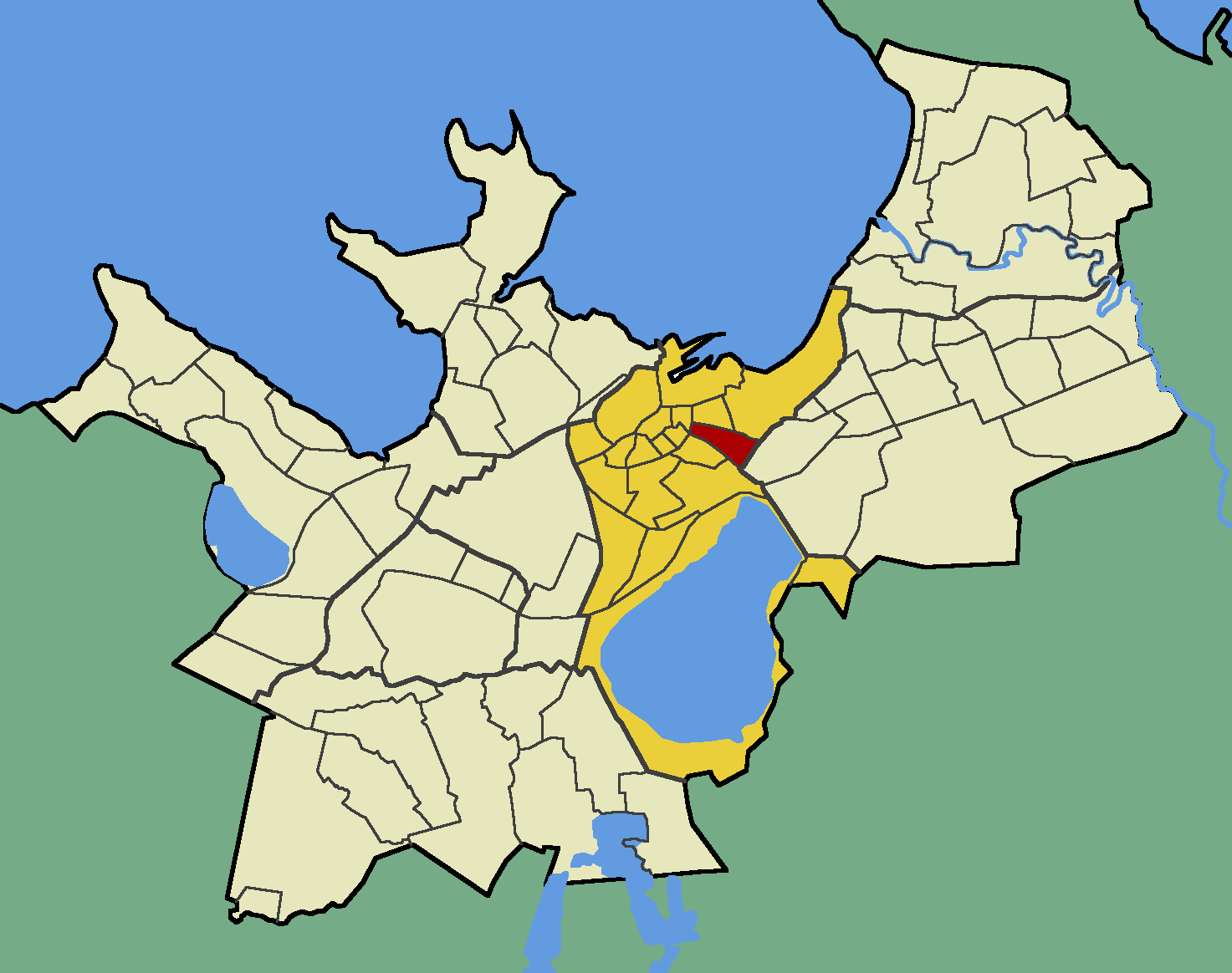 Map of Tallinn (Estonia) with borders of the quarters, Kesklinn district and Torupilli quarter emphasised